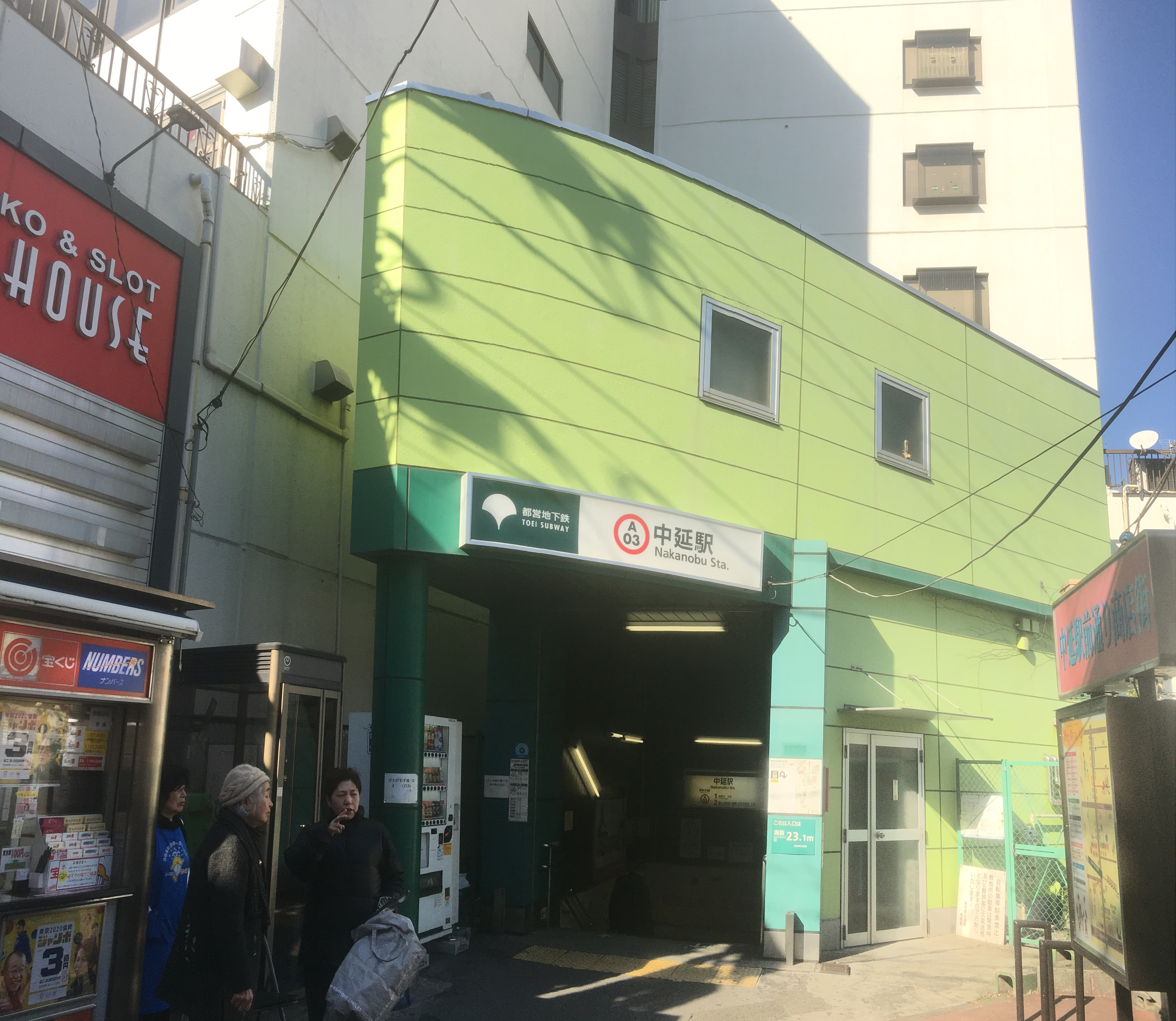 中延駅のA3出口 (Nakanobu Station A3 exit)